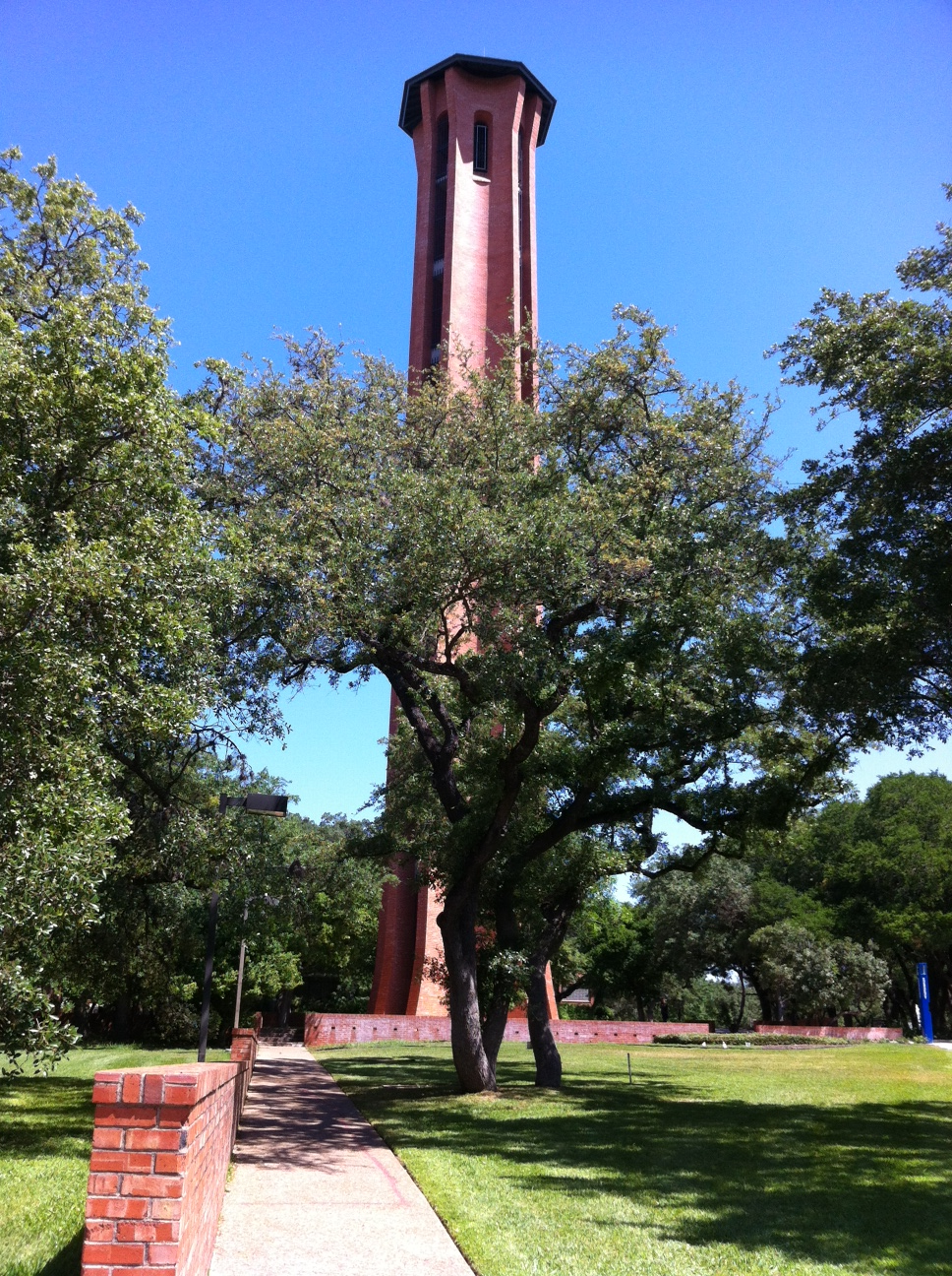 Murchison Tower, Trinity University